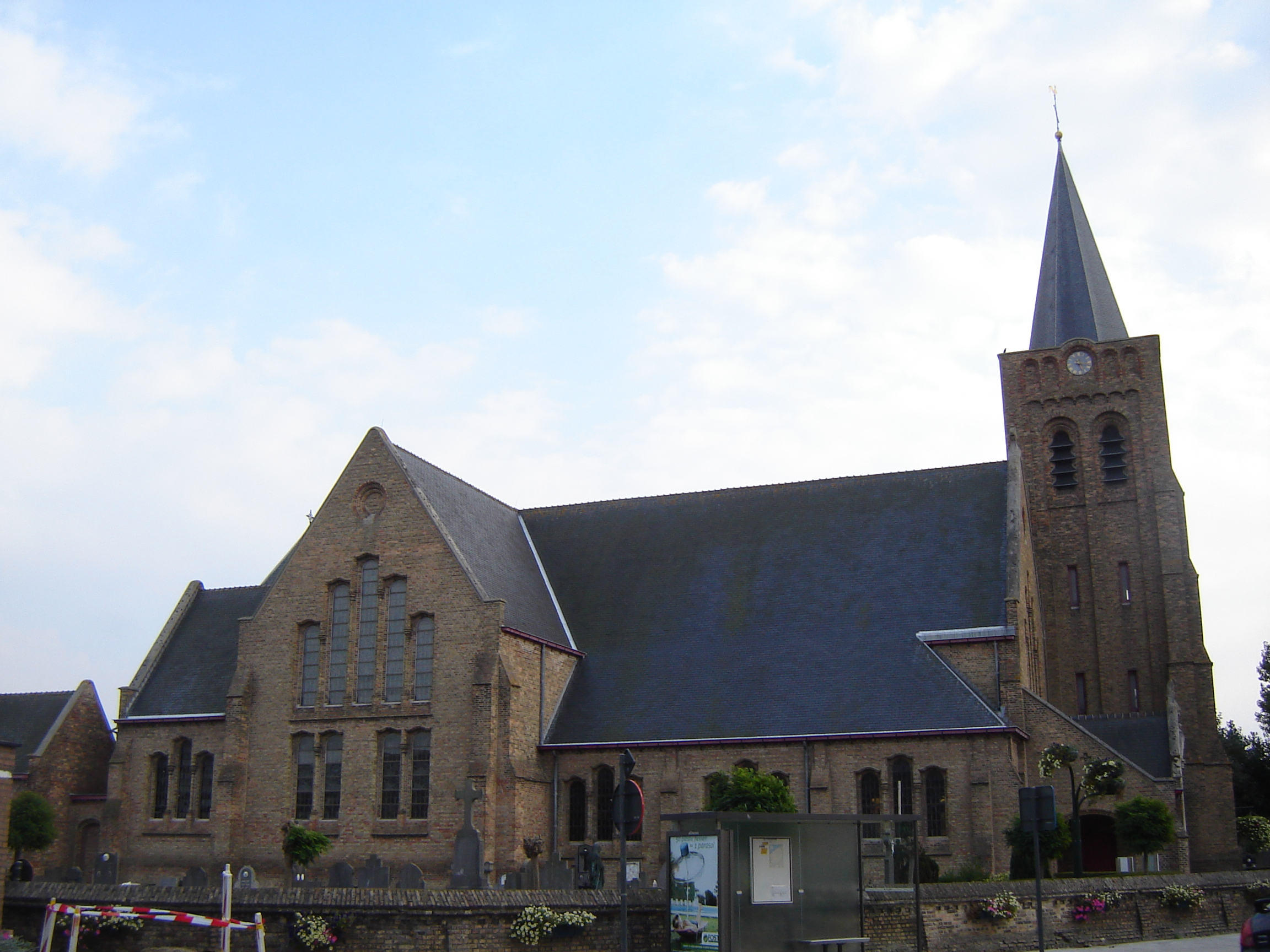 Church of the Visitation of Mary in Lombardsijde. Lombardsijde, Middelkerke, West Flanders, Belgium